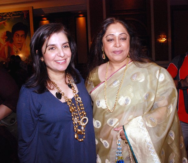 Audio release of Om Shanti Om